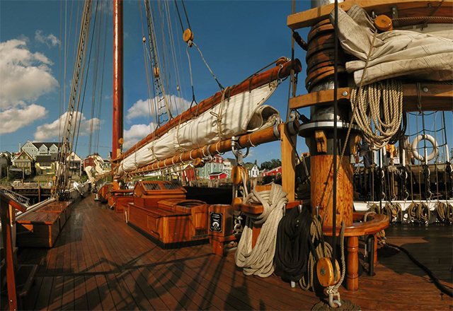 Canadian Tall Ship - Bluenose II - in Lunenburg IMO Number: 5419086 MMSI Number: 316245000 Callsign: CYJZ